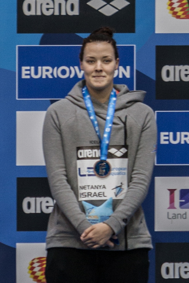 Swimmer Eygló Ósk Gústafsdóttir wearing the bronze medal she won at the 2015 European Short Course Swimming Championships in Netanya